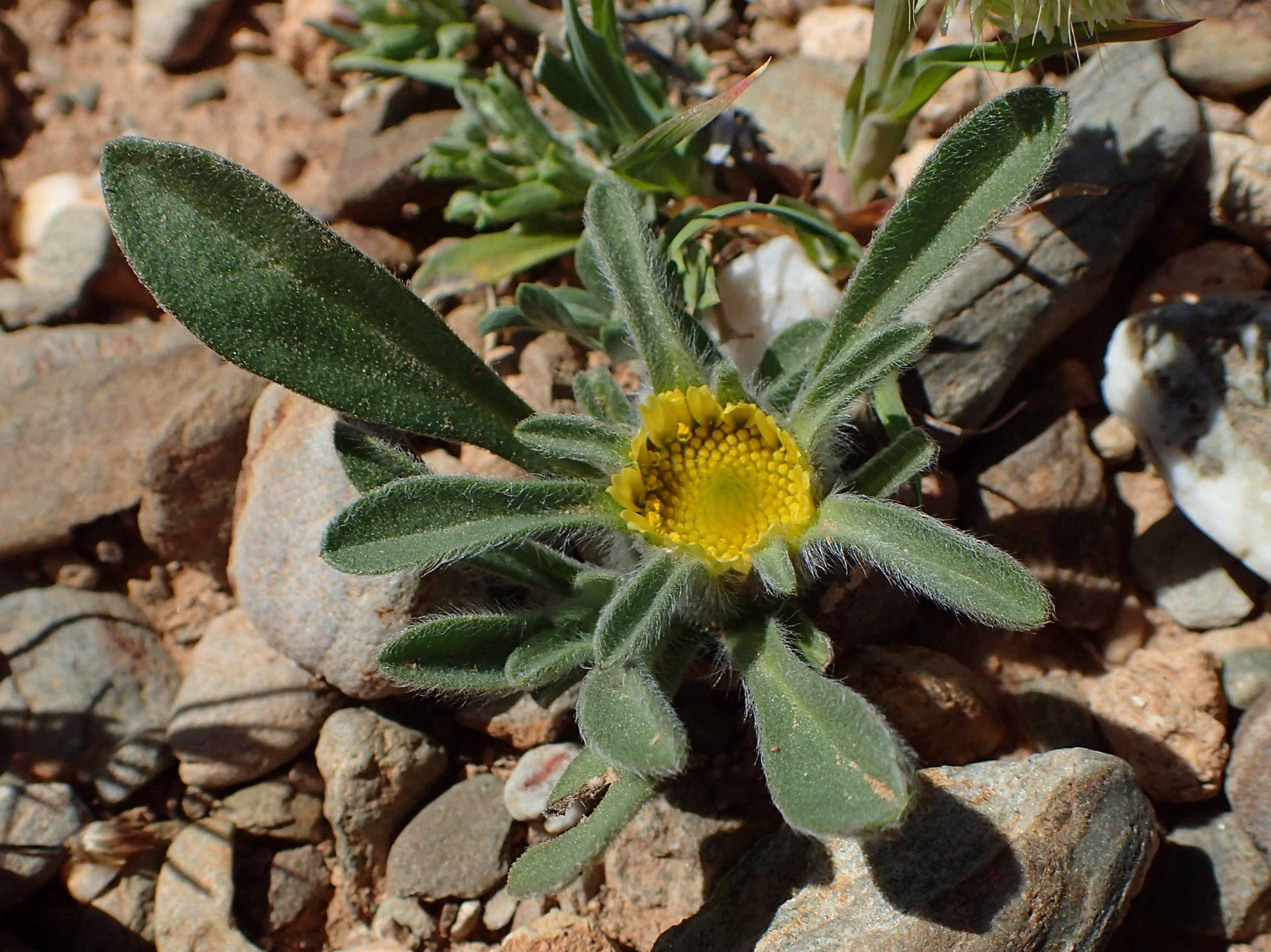 Pallenis hierochuntica in Talamanzou (Marrakesh-Safi, Morocco)